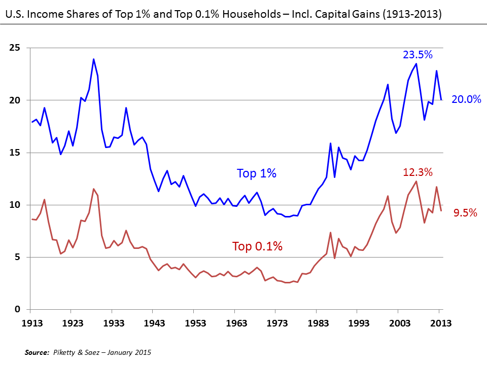 Chart shows the U.S. income share of the top 1% and top 0.1% of households from 1913-2013.